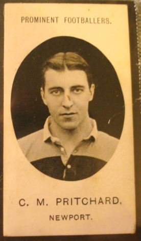 Charlie Pritchard Wales international rugby union palyer, Newport club